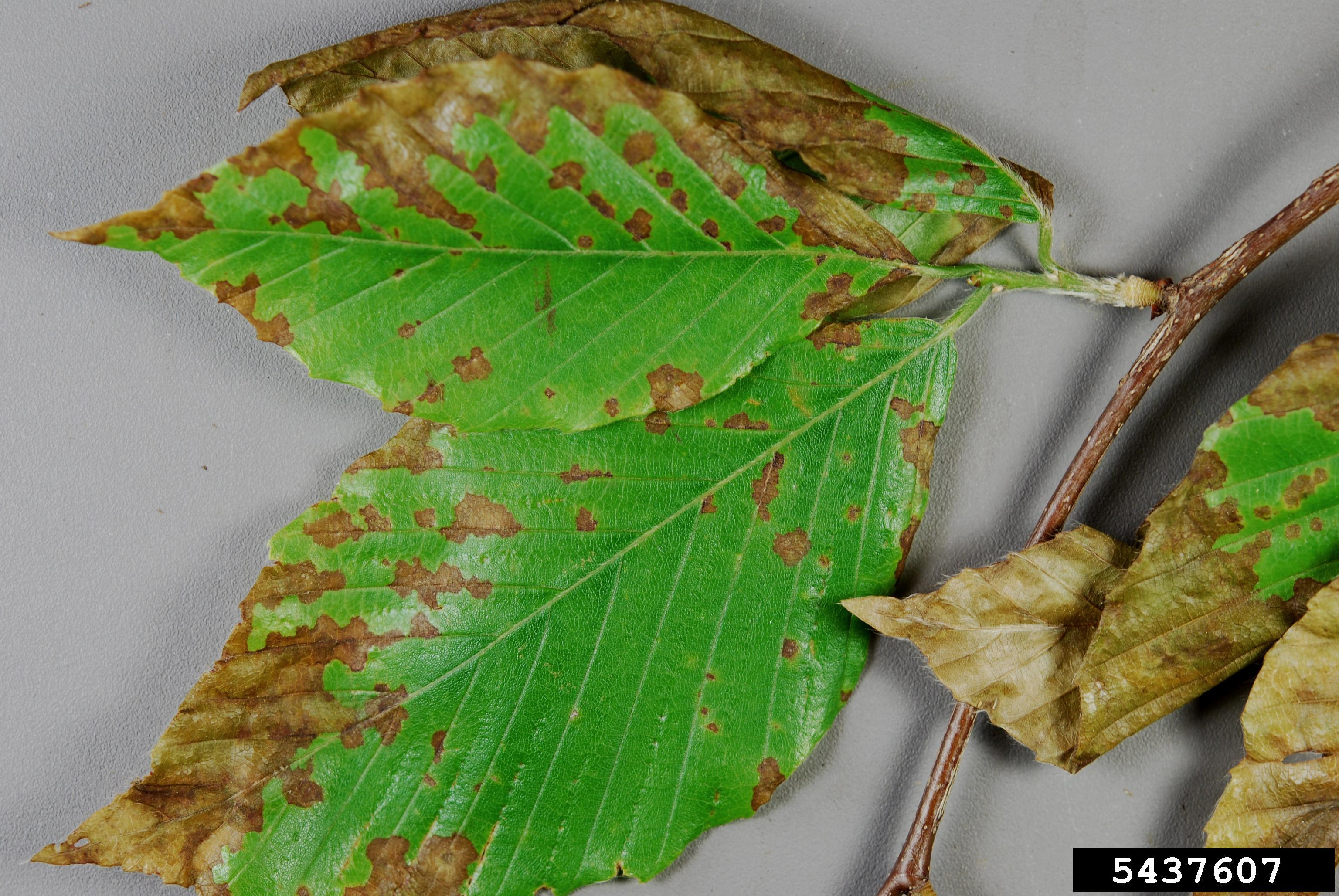 Oak Anthracnose caused by Apiognomonia errabunda on Fagus grandifolia leaves